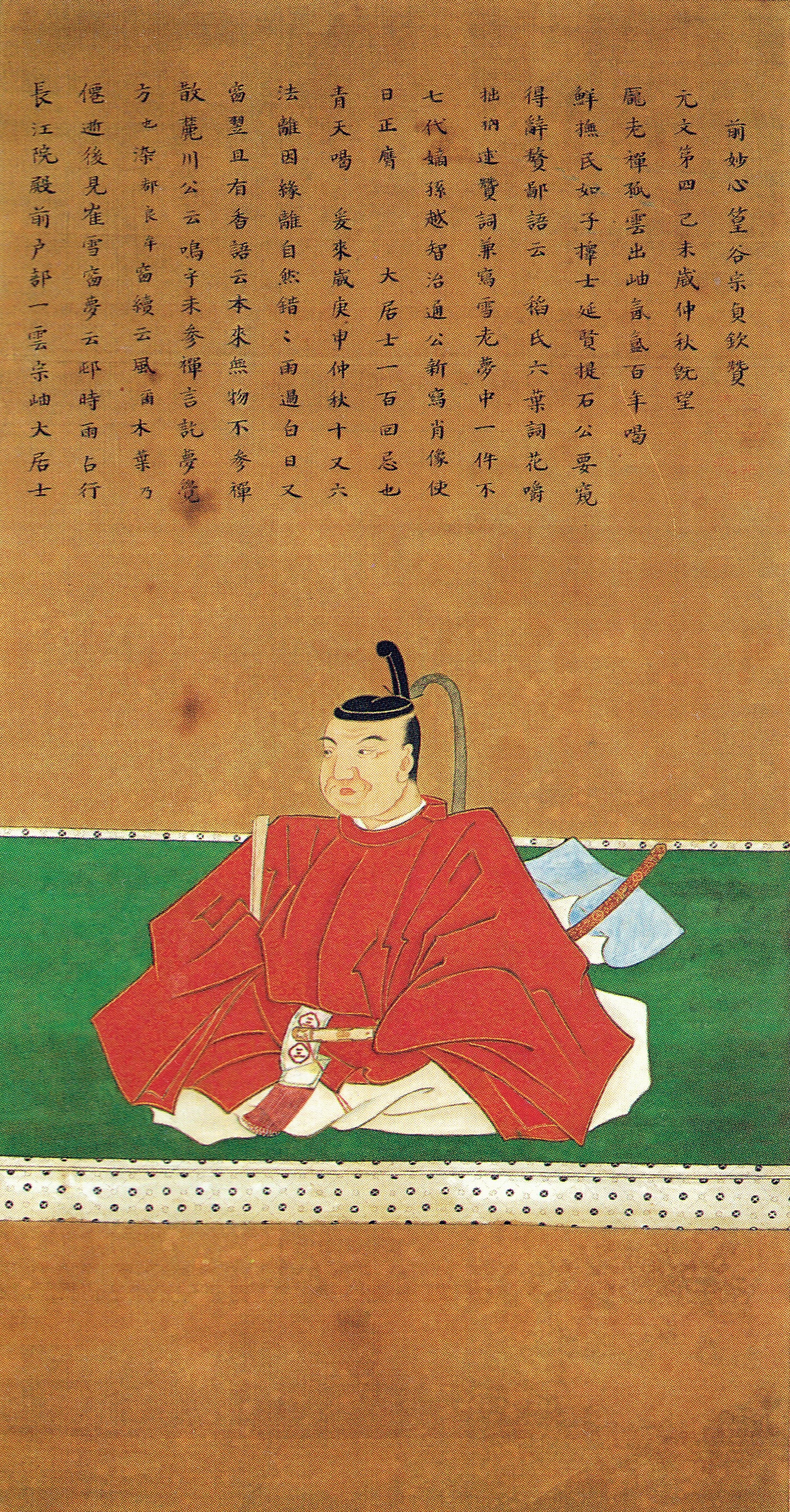 Portrait of Inaba Kazumichi, owned by Gekkei-ji Temple in Usuki, Oita, Japan